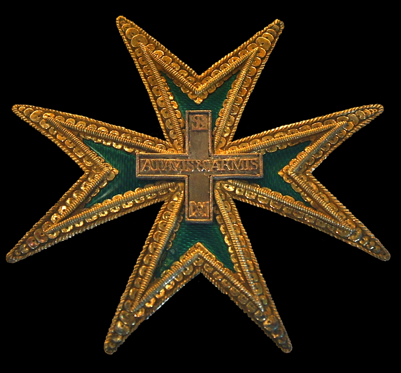 Plaque of First-class knight of the former french Order of Saint-Lazare et de Notre Dame du Mont-Carmel.Museum of Legion d'honneur